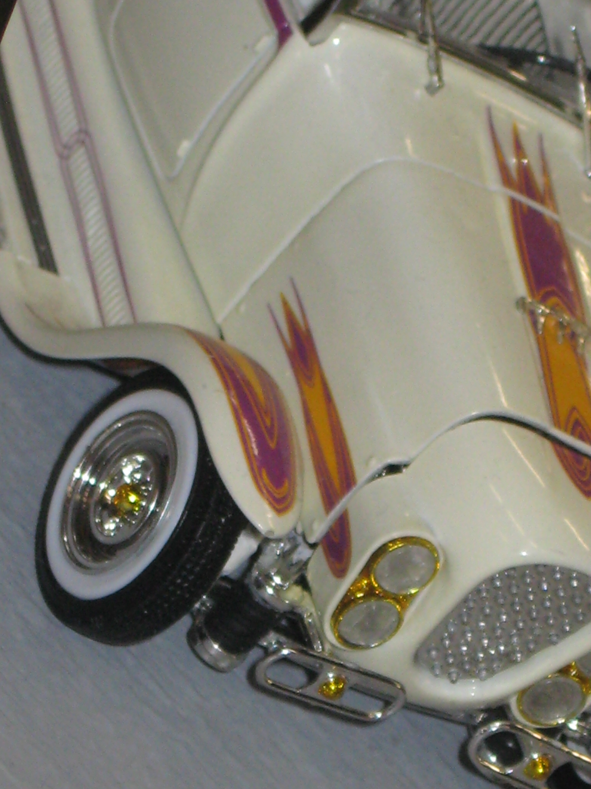 front of model kit of the classic Barris custom 'Ala Kart', shot at Draggins 50h Anniversary show, Prairieland Exhibition building, 3 April 2010